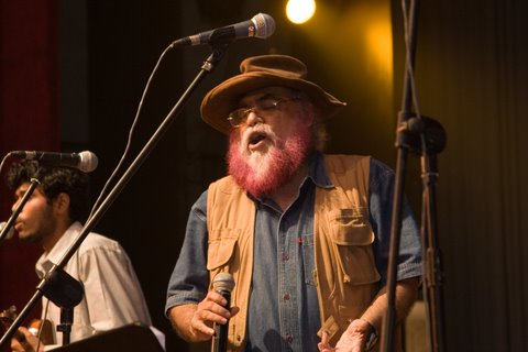 Ranjon Ghoshal at the First Rock concert, Bangalore.